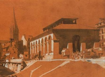 Caen fish market – This market hall was built for the city's fishmongers in 1832. Hardly damaged in 1944, it was nonetheless destroyed when the city was rebuilt.